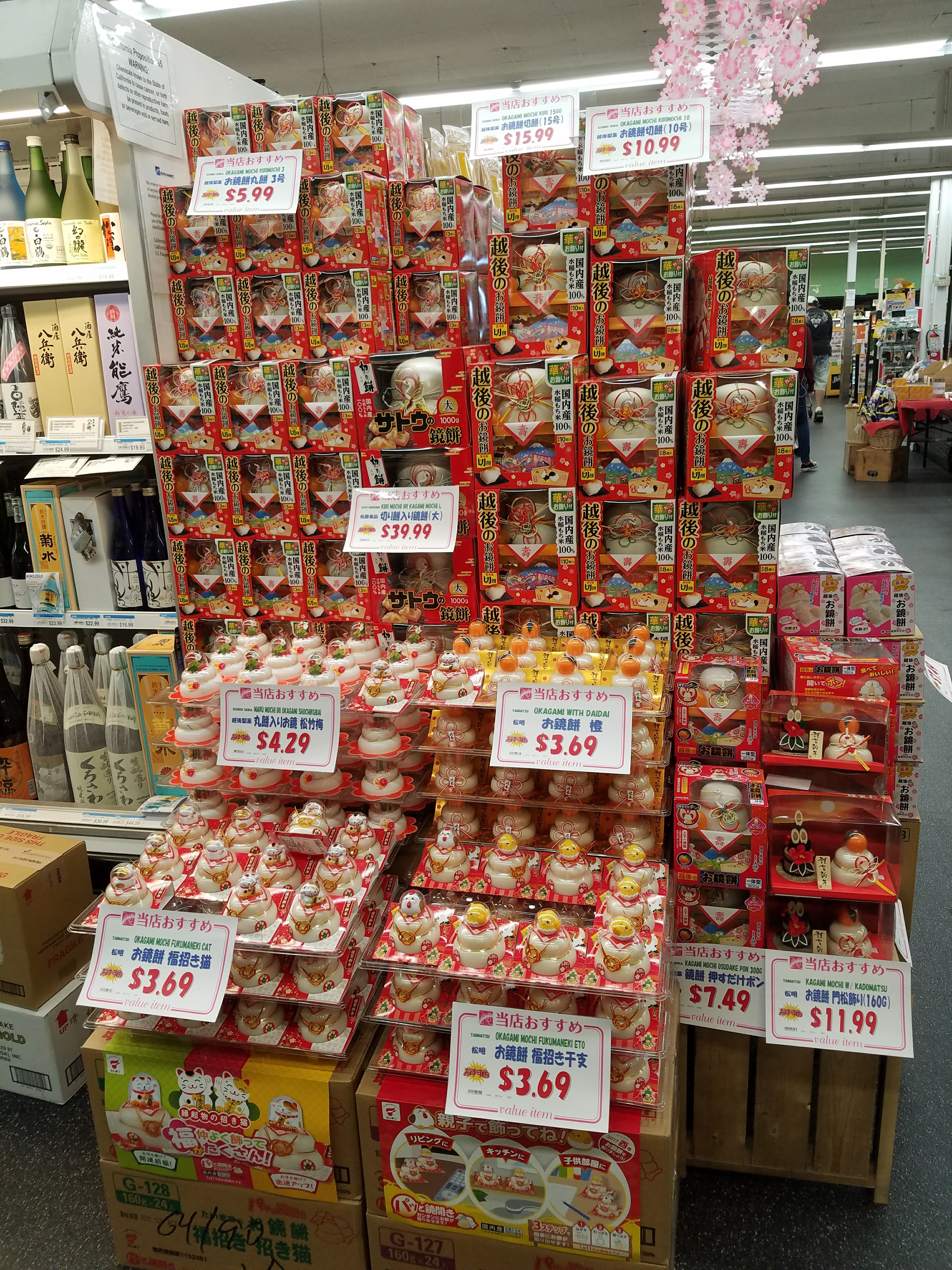 A kagami mochi display at Nijiya Market in San Diego, California in late November, 2016.